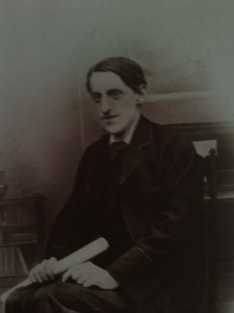 Photo of JT Dean, former organist at St Thomas of Canterbury's parish church, Chester, England